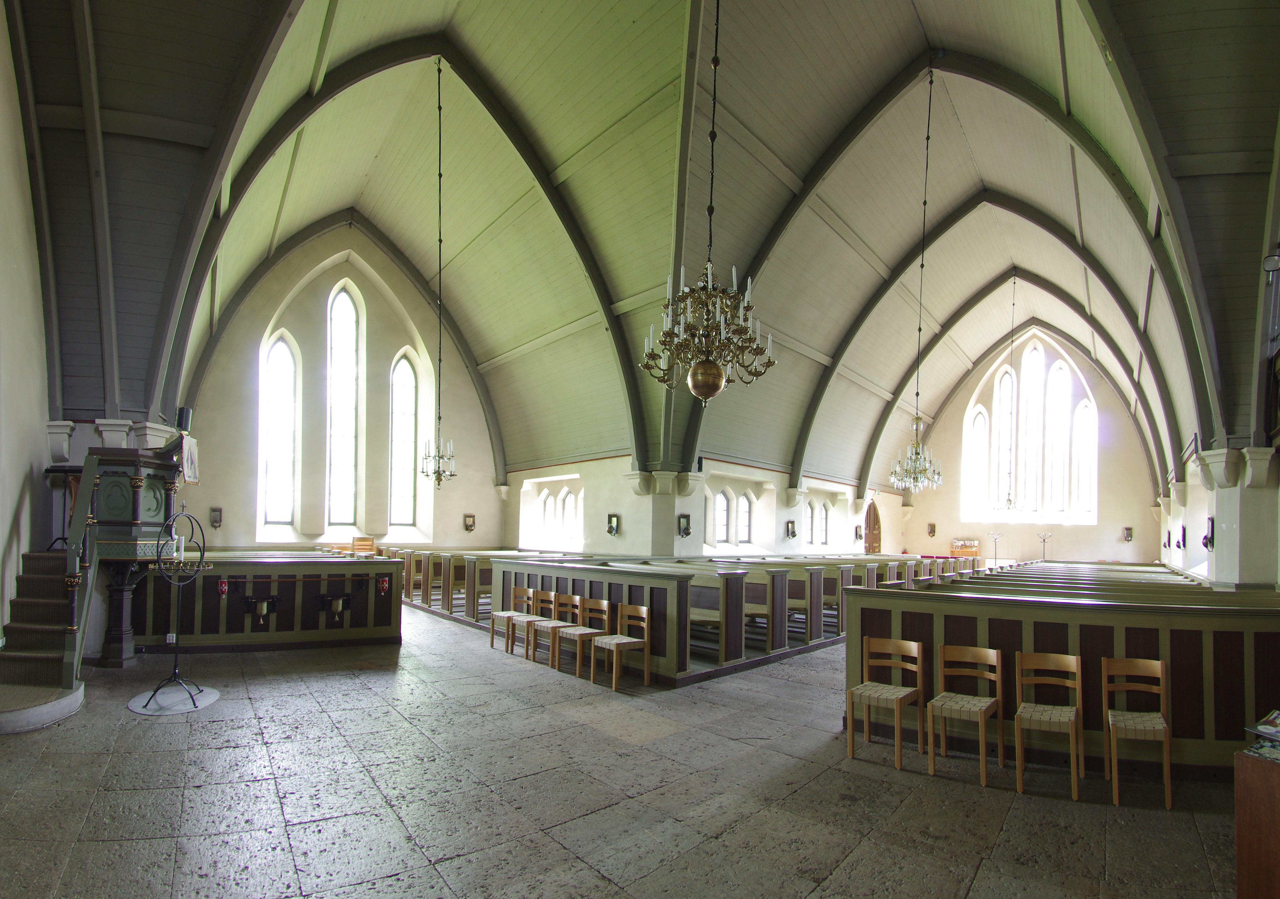 Vinköls kyrka (english:Vinköl church) in Västergötland and Skara municipality in Västragötaland county, Sweden.